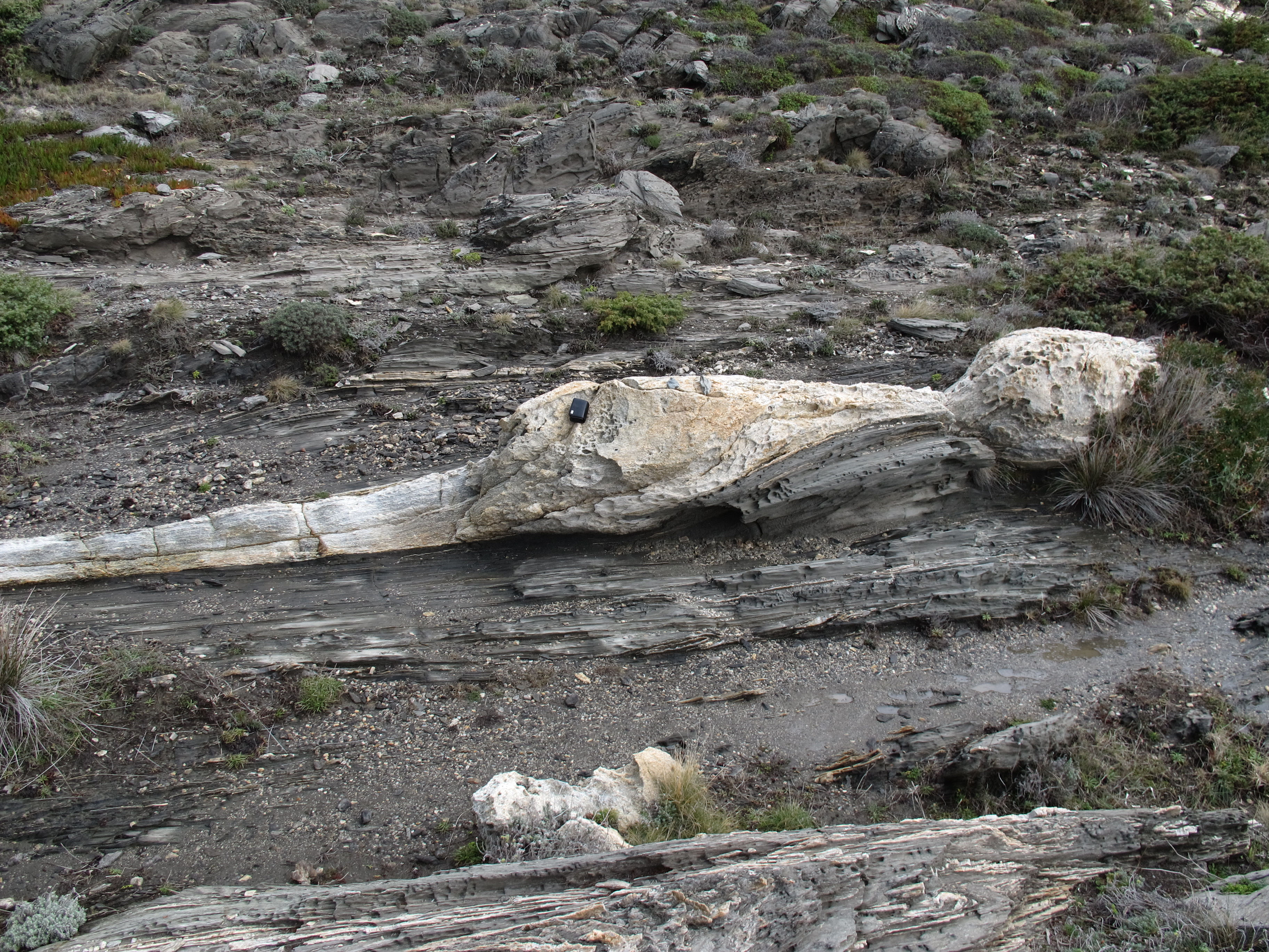 Asymmetric boudins of pegmatite caught up in a dextral sense shear zone, near Cala Portixol, Cap de Creus area, Catalunya. Lineation within zone sub horizontal, zone dips ca. 60 degrees to northeast. Camera case for scale - length 12 cm